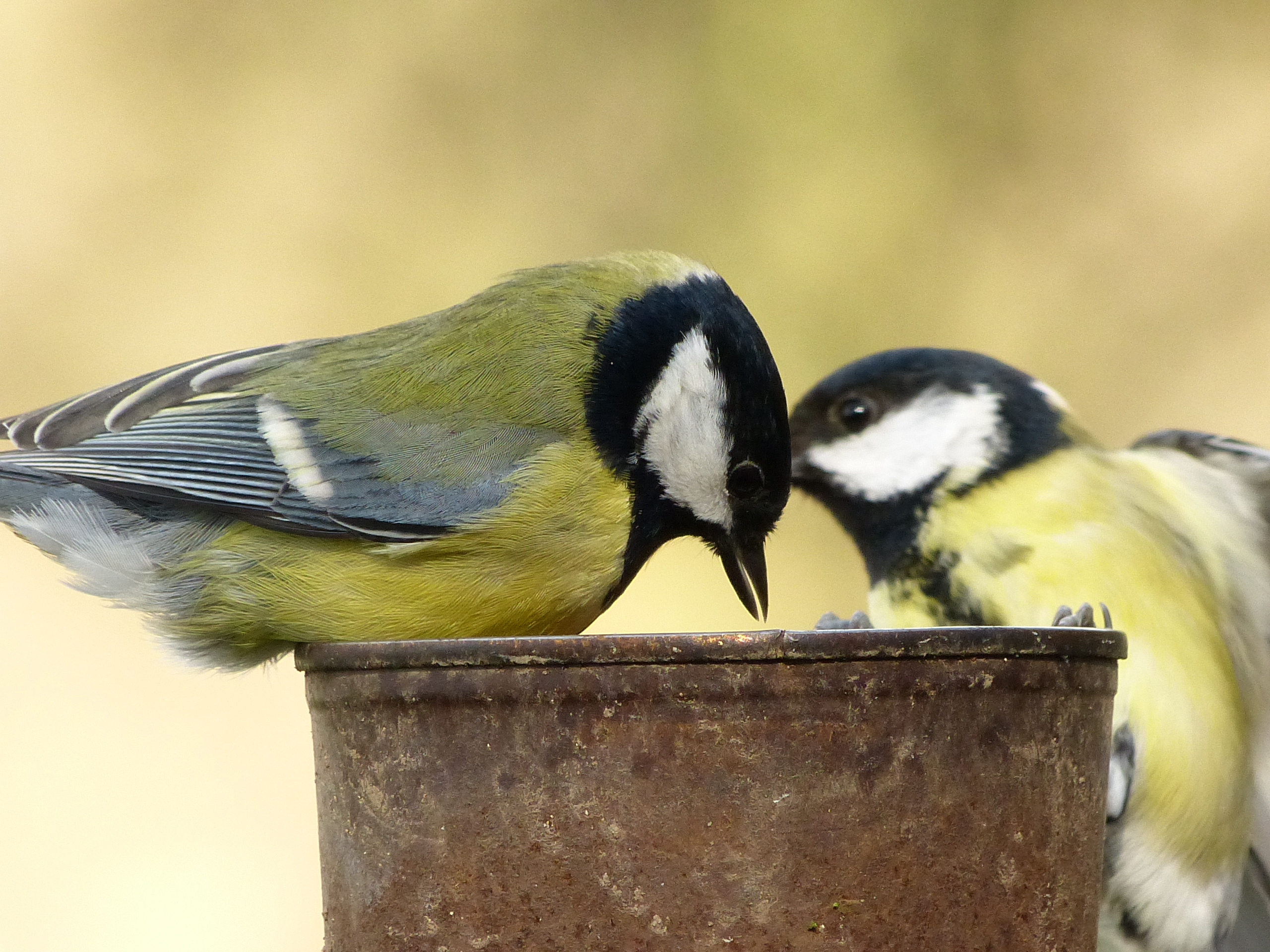 Latin name Parus major Family Tits (Paridae) Overview The largest UK tit - green and yellow with a striking glossy black head with... Where to see them ... When to see them All year round. What they eat Insects, seeds and nuts.